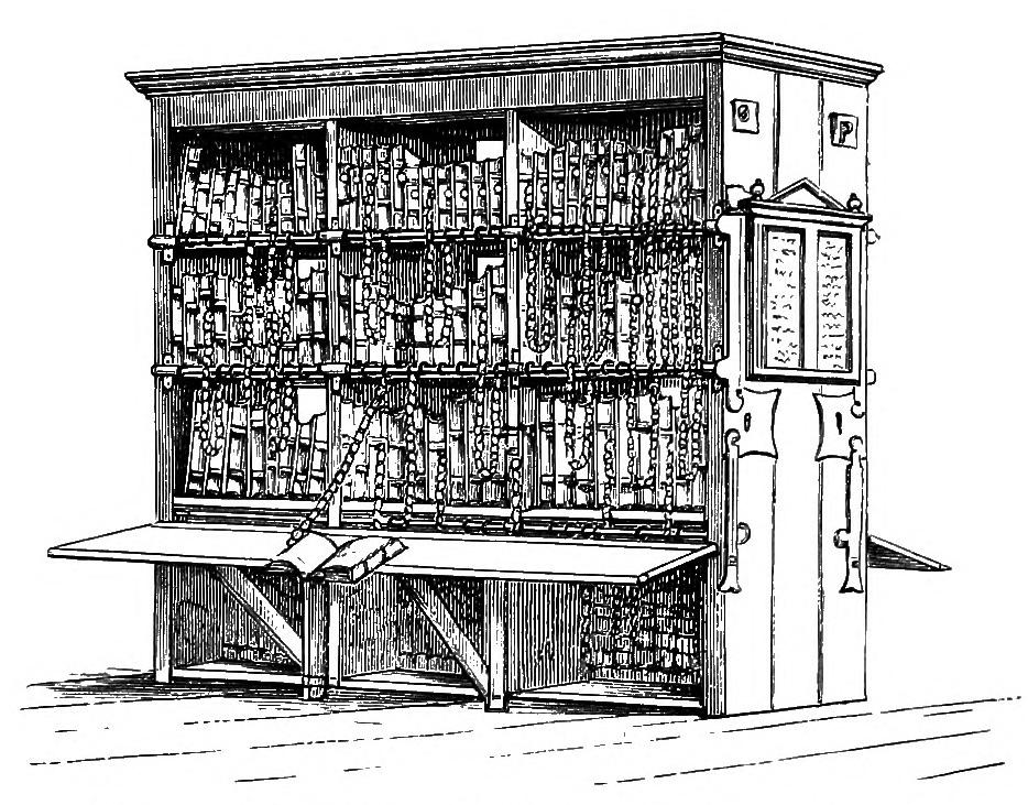 Bookcase in Hereford Cathedral.